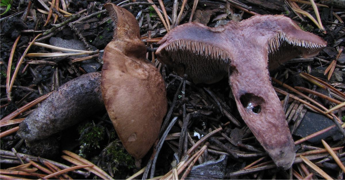 Sarcodon fuligineo-violaceus Location: Gotland, Sweden For more information about this, see the observation page at Mushroom Observer.